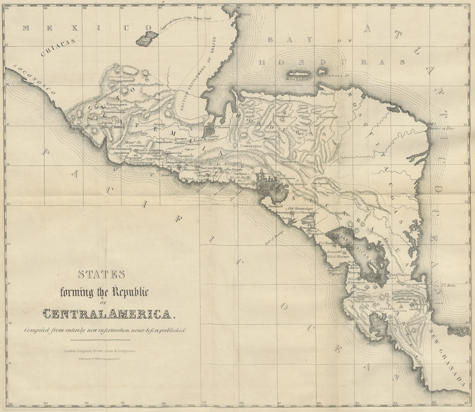 Page 17 of Travels in Central America, being a journal of nearly three years' residence in the country, together with a sketch of the history of the republic, etc.